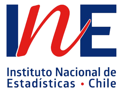 Logo of the National Statistics Institute (Chile)